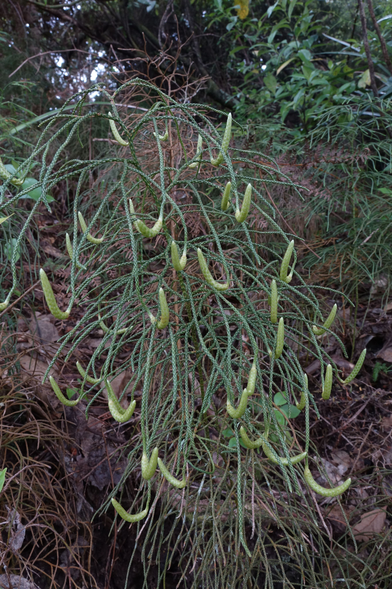 Lycopodium deuterodensum in Raglan, New Zealand